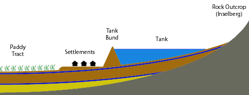 Diagrammatic cross section of the Dry Zone catena in Sri Lanka, showing the typical layout of a traditional village (not to scale). Key Brown: Soil and sub-soil Yellow: Weathered rock Grey: Hard crystalline rock Top blue line indicates the wet season water table Lower blue line indicates the dry season water table